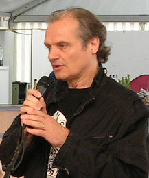 Pierre Bordage, at the final party of Imaginales Festival (Épinal, 2008)